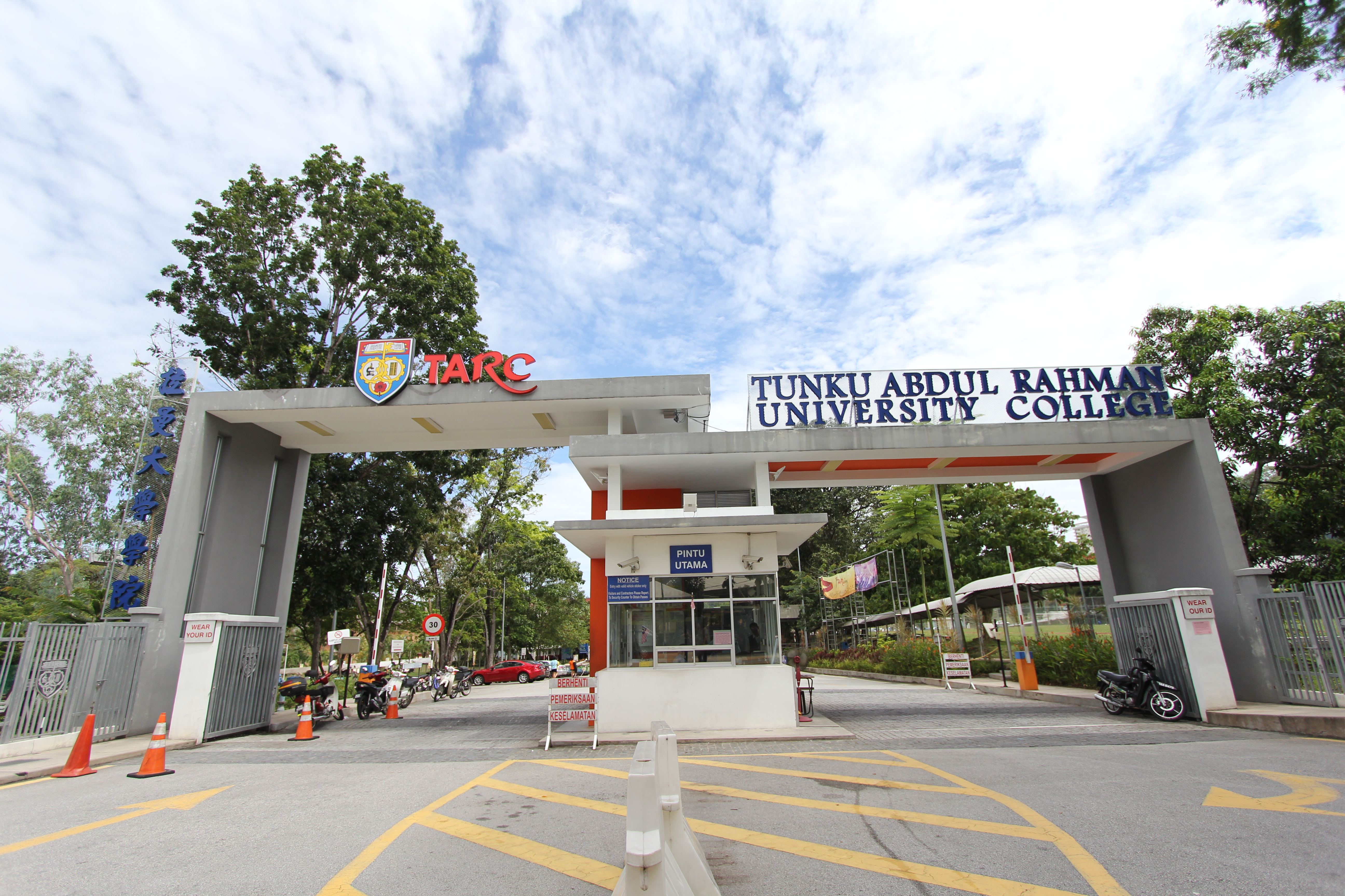 Main entrance of the Tunku Abdul Rahman University College's KL Main Campus in Setapak, Kuala Lumpur.